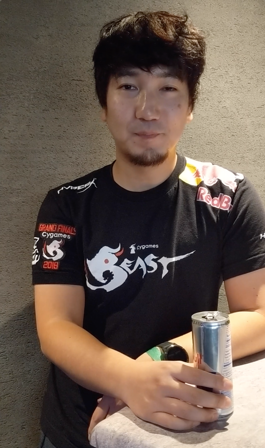 Daigo Umehara at Capcom Cup